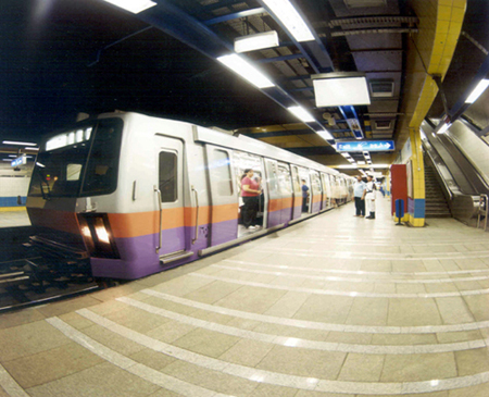 Cairo's Metro